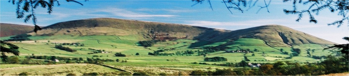 Fair Snape Fell (left) and Parlick (right), in Lancashire, England. Photographed from Beacon Fell.